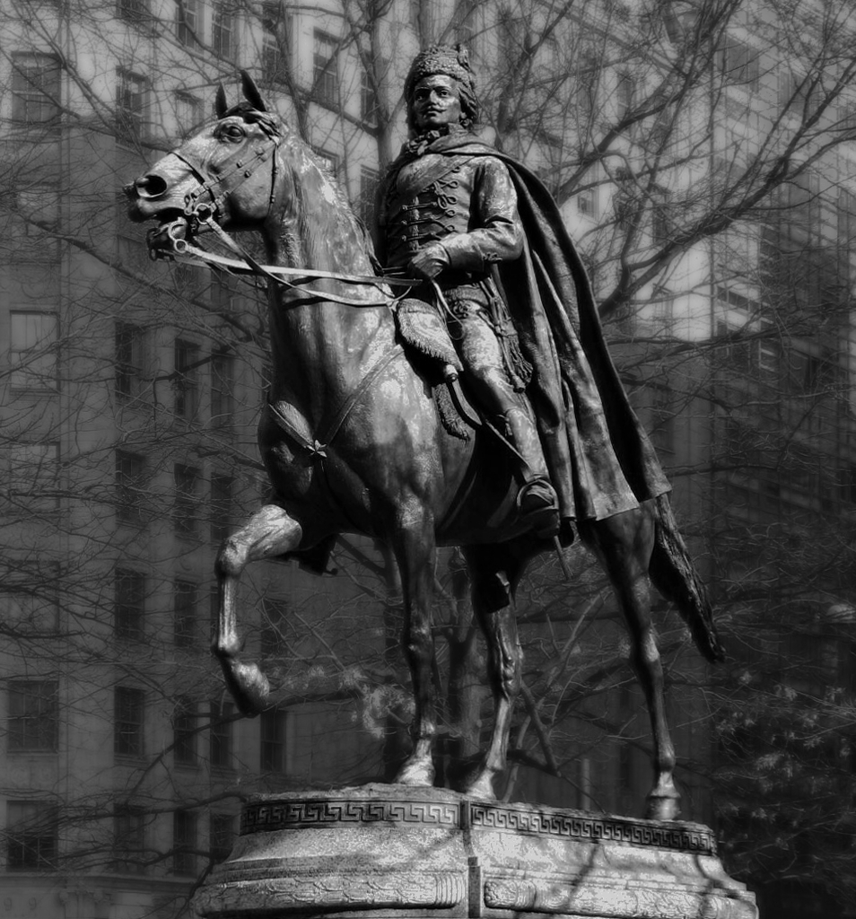 Equestrian sculpture by Kazimierz Chodziński